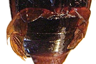 hind leg of beetle Gyrinidae